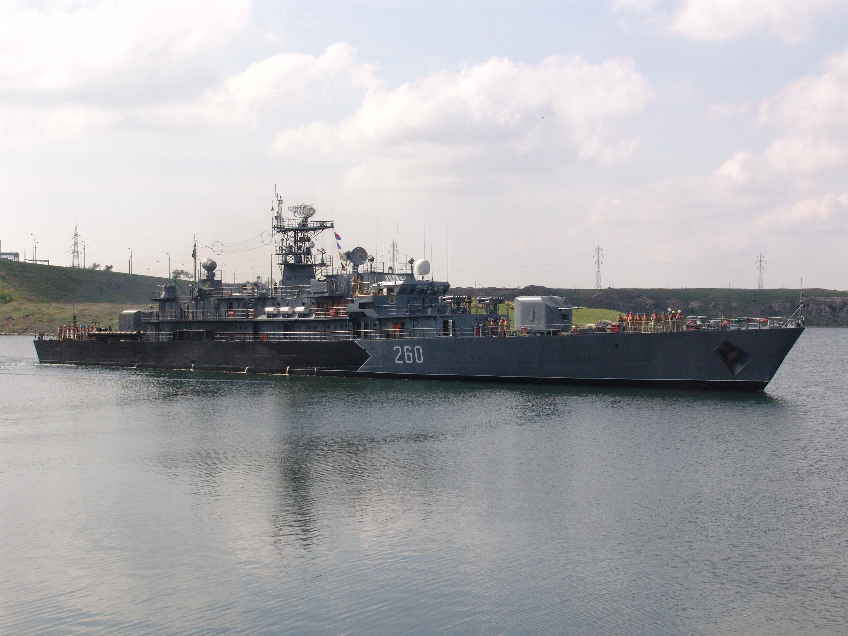 "Amiral Petre Barbuneanu" corvette (Tetal-I class) returns from mission.